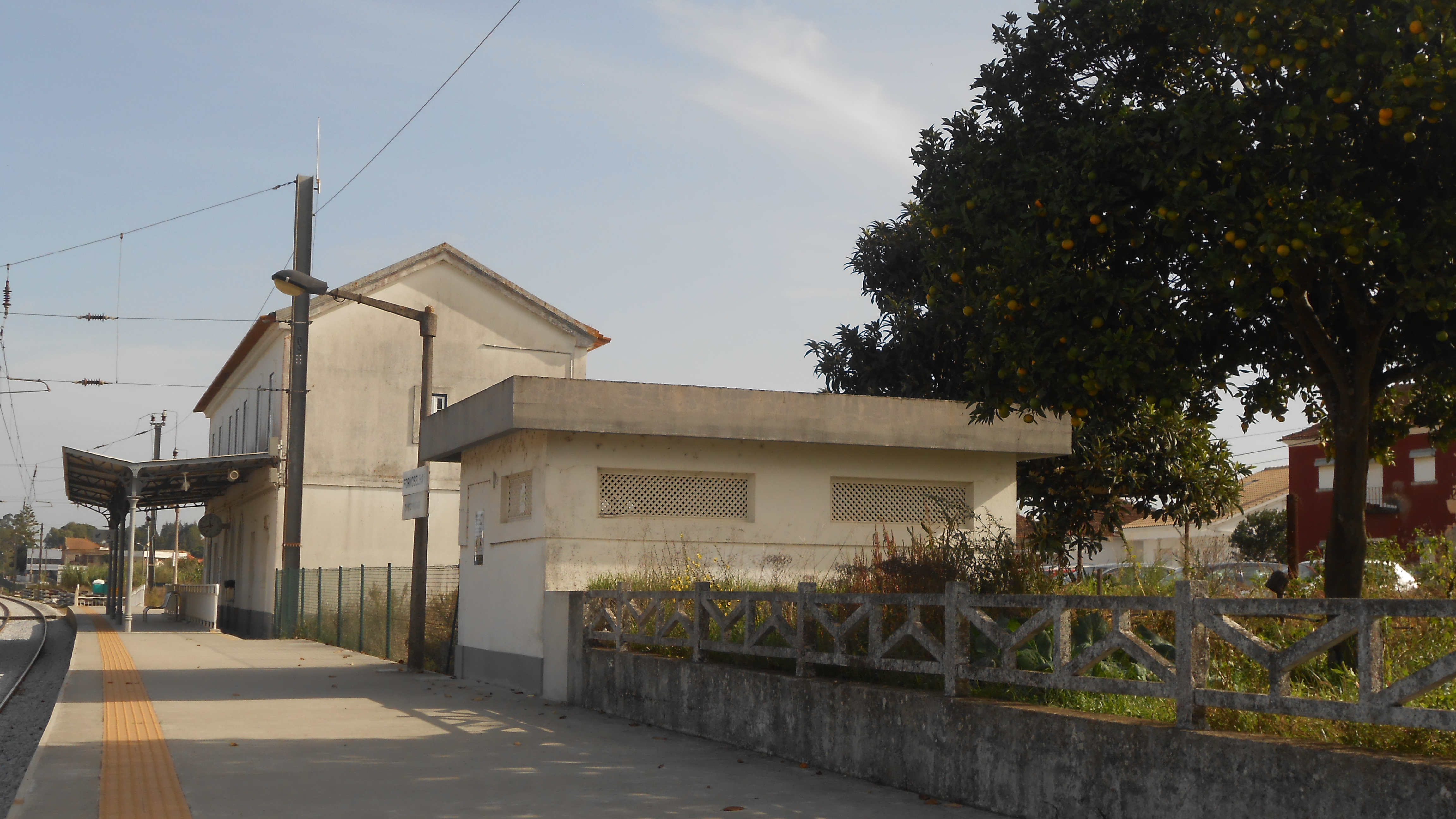 The Formoselha - Santo Varão station, serving as simple halt these days.